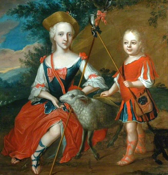 Boy and Girl Dressed as a Shepherd and a Shepherdess with a Lamb